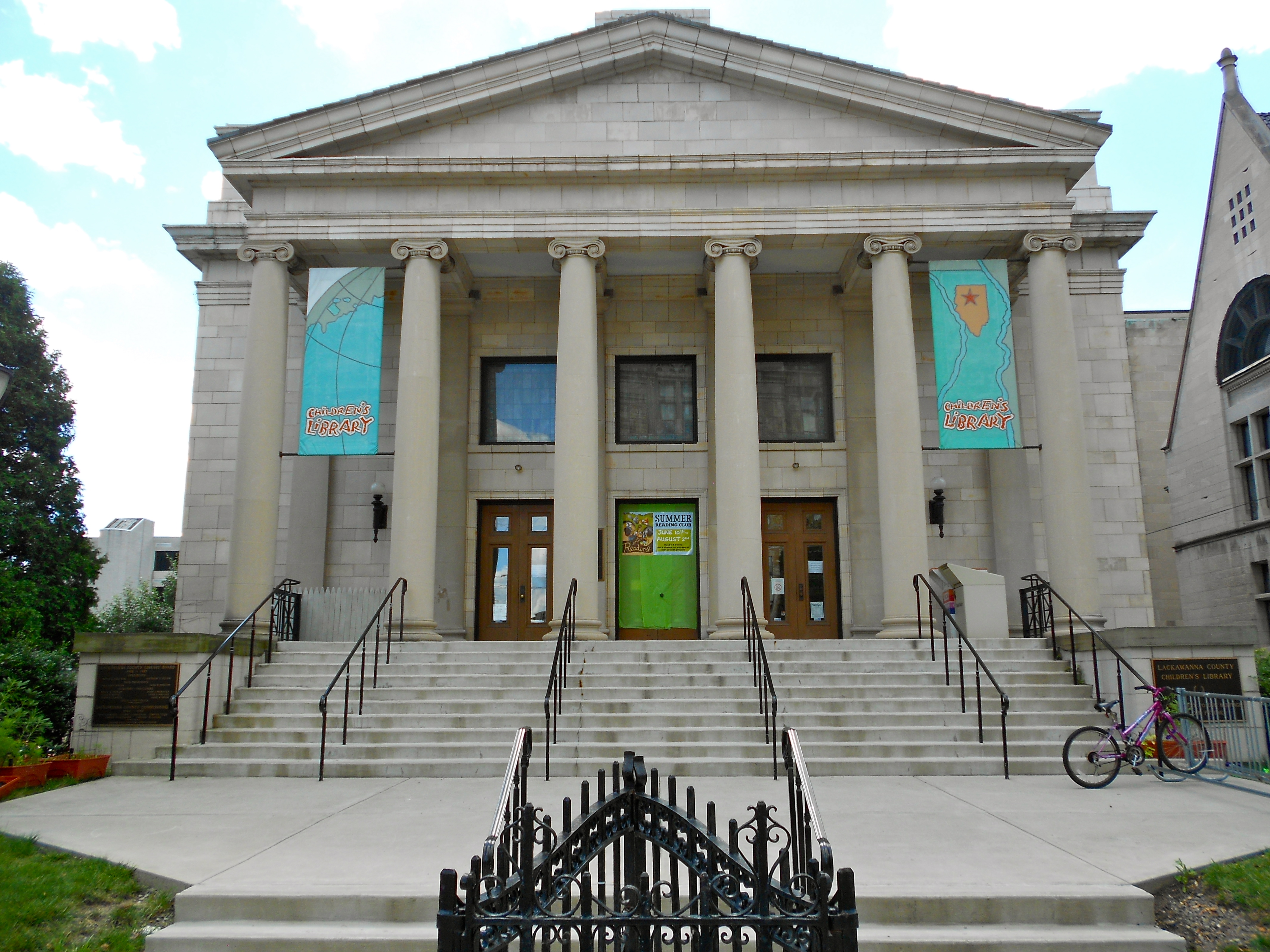 First Church of Christ, Scientist, now a children's library, listed on the NRHP on May 9, 1988. Located at 520 Vine Street, Scranton, Lackawanna County, Pennsylvania.